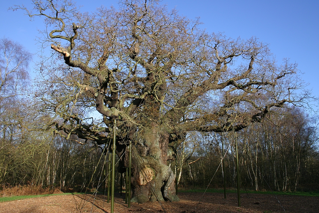 Picture of the Major Oak in Sherwood Forest, Nottinghamshire, UK in December 2006